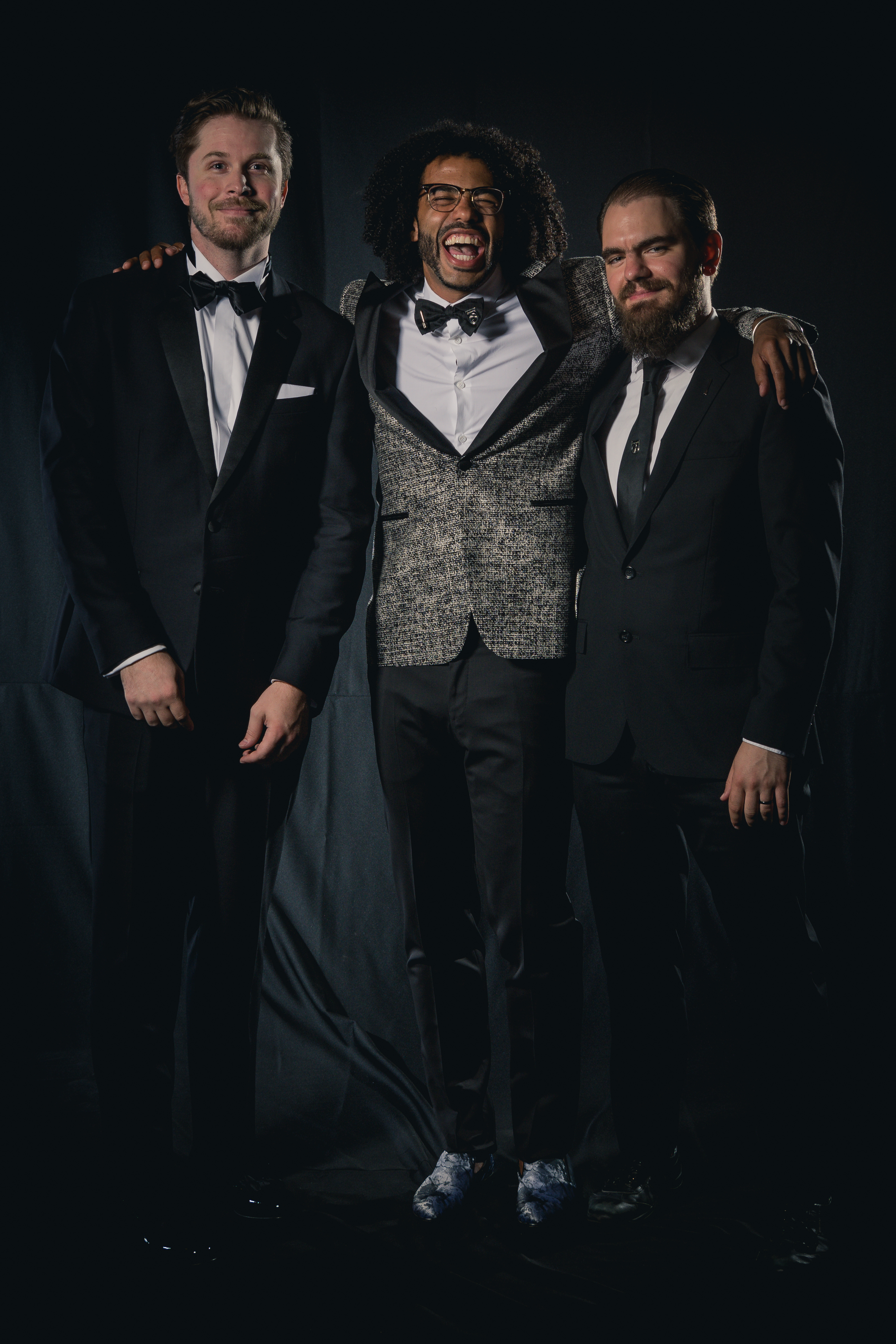 Portrait photoshoot at Worldcon 75, Helsinki, before the Hugo Awards: From left: William Hutson, Daveed Diggs and Jonathan Snipes